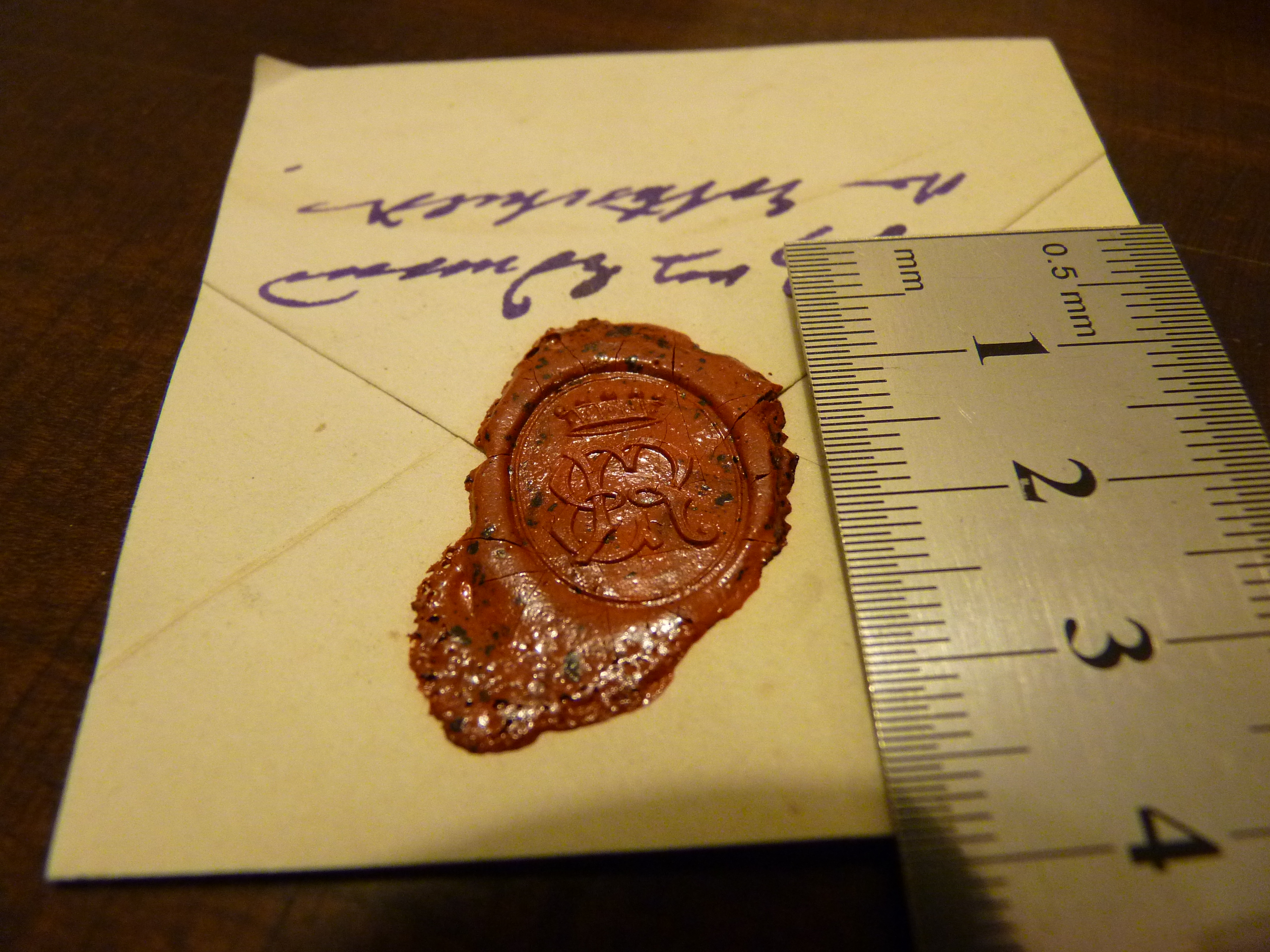 Baron Edmond De Rothschild's wax seal with his monogram and a British baronial coronet.